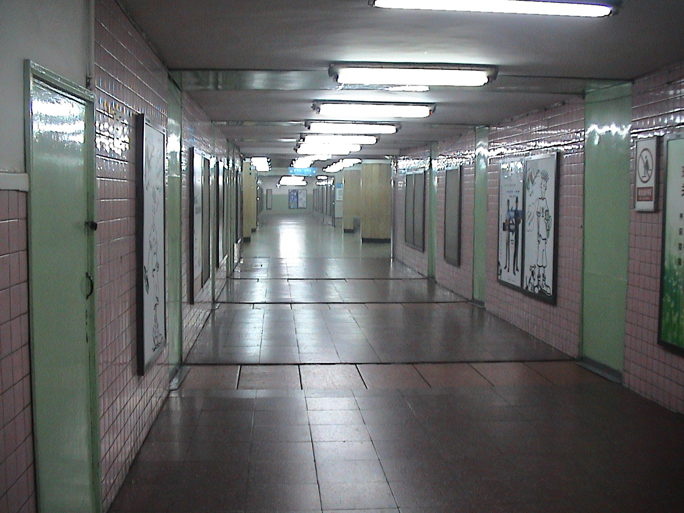 Xizhimen station, Beijing Subway line 2